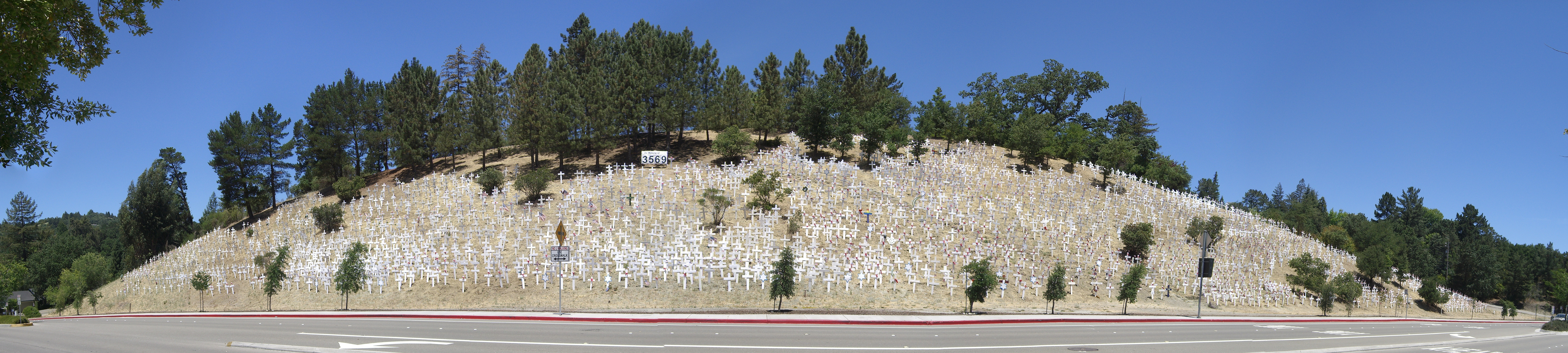 Lafayette hillside memorial taken on Saturday, June 30th, 2007. Stitched with autopano, hugin, and enblend.